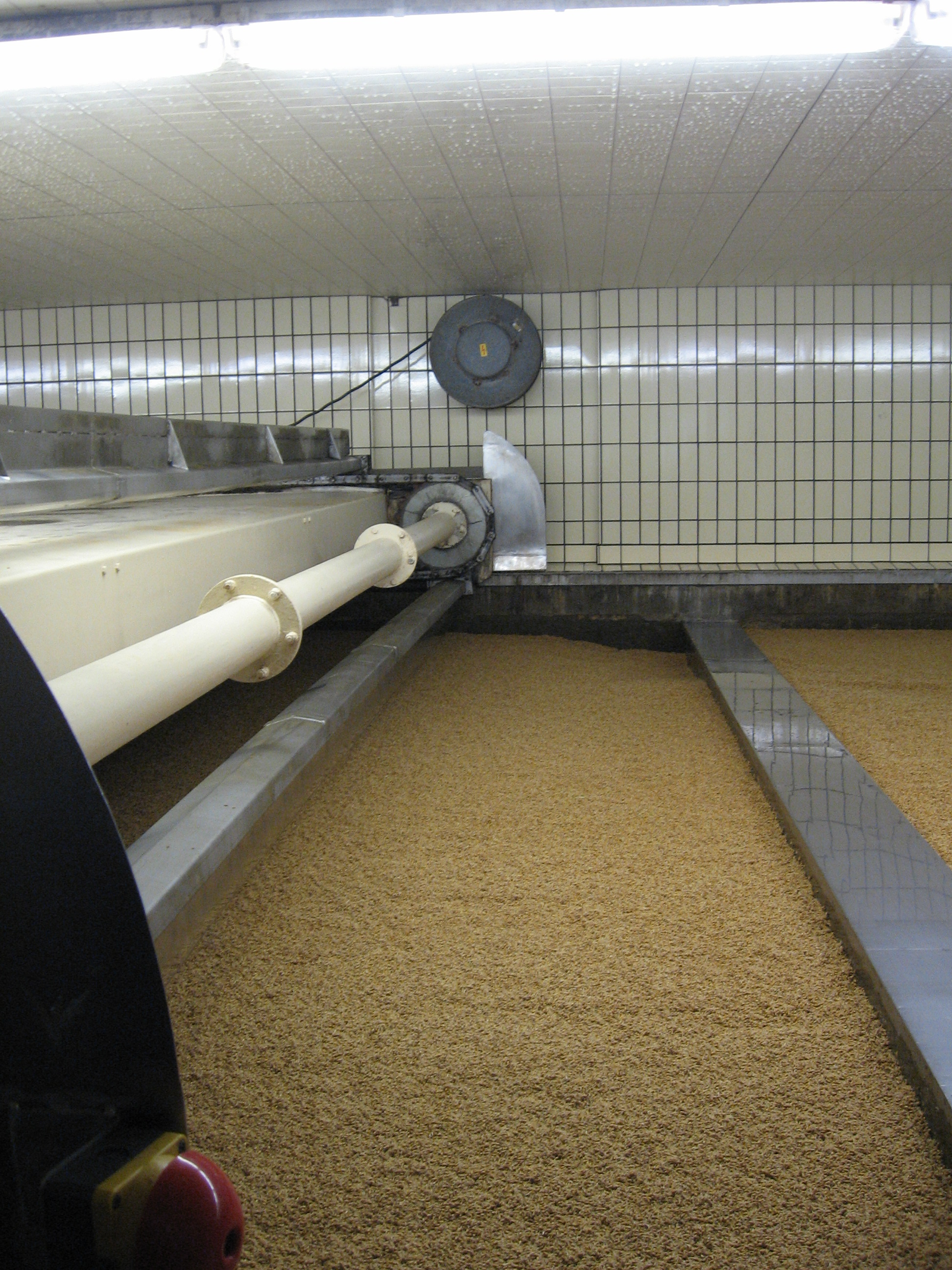 Privatbrauerei Hoepfner, a German Brewery near Karlsruhe. This image: The Malt production